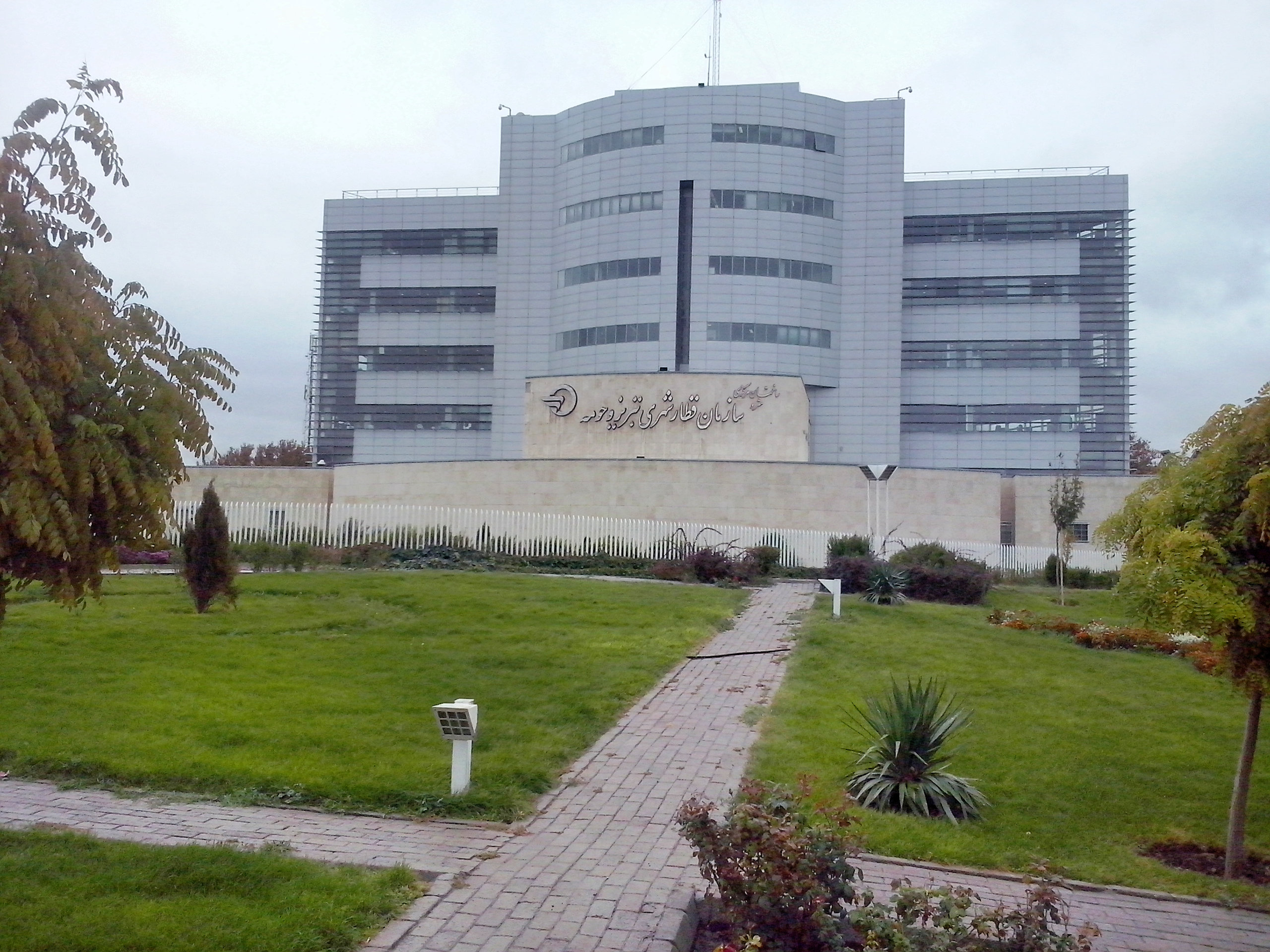 Tabriz urbain railway organization.